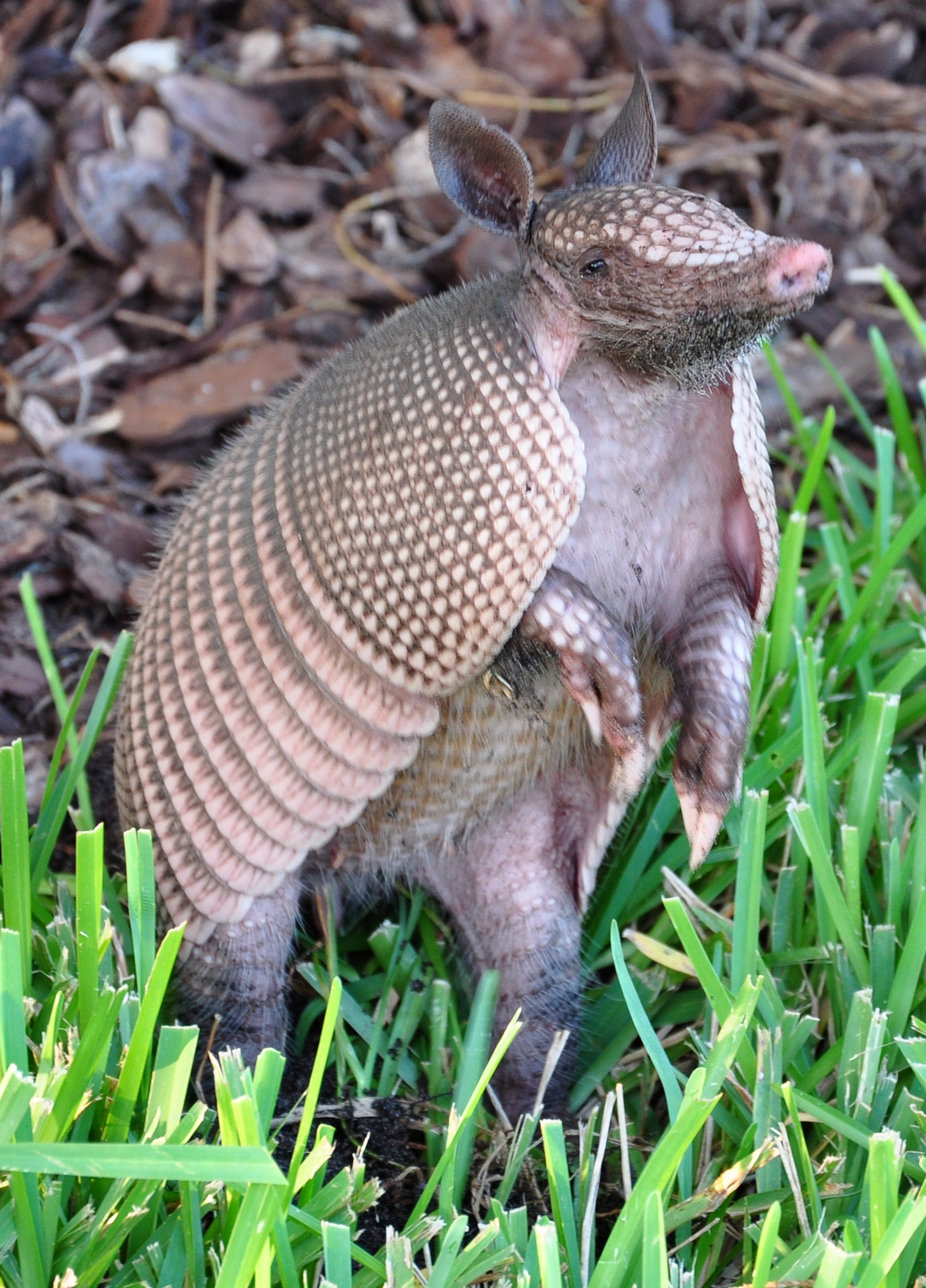 Armadillo playing in the grass in Palm Coast, FL